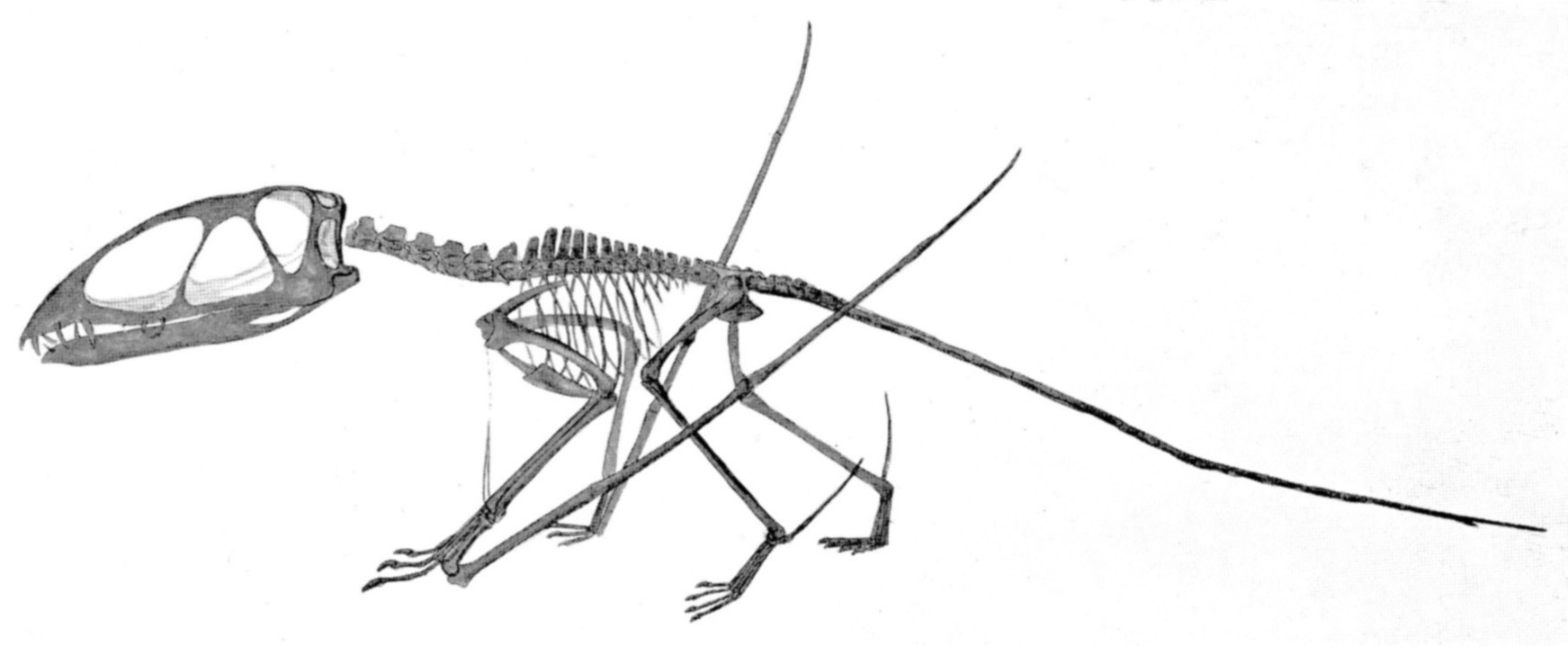 Dimorphodon macronyx skeleton from Dragons of the Air 1901 United States